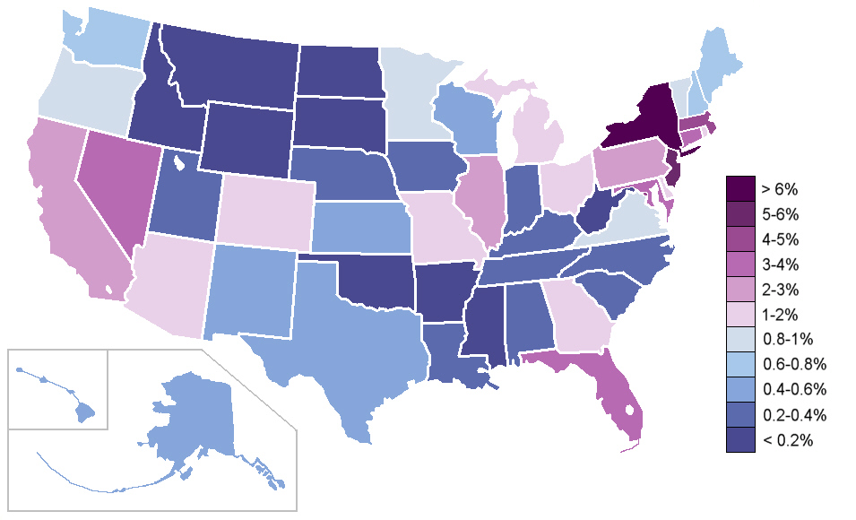 Jewish Population by US States (% of population; estimate); data